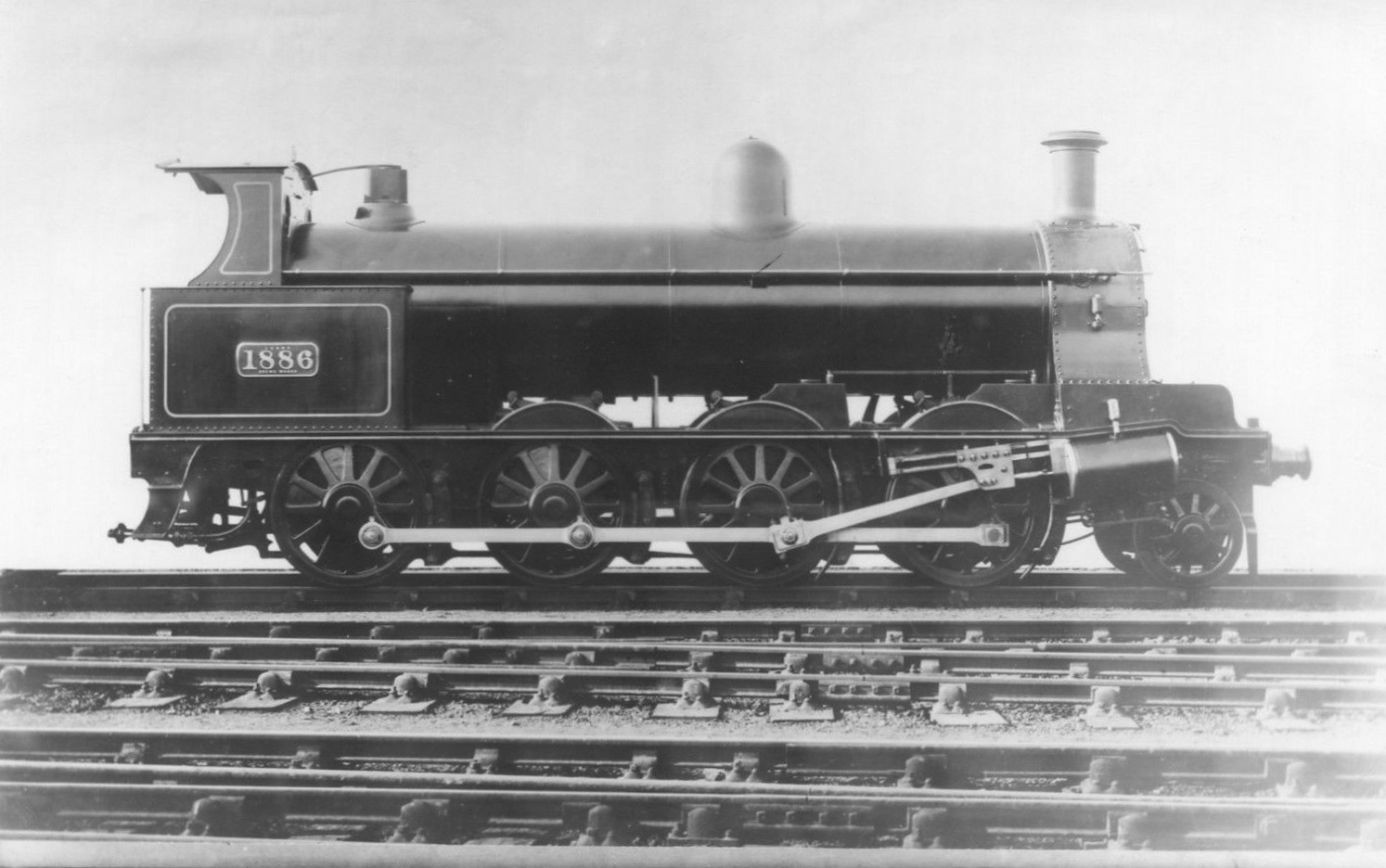 Photograph of LNWR engine No. 1886 E Class